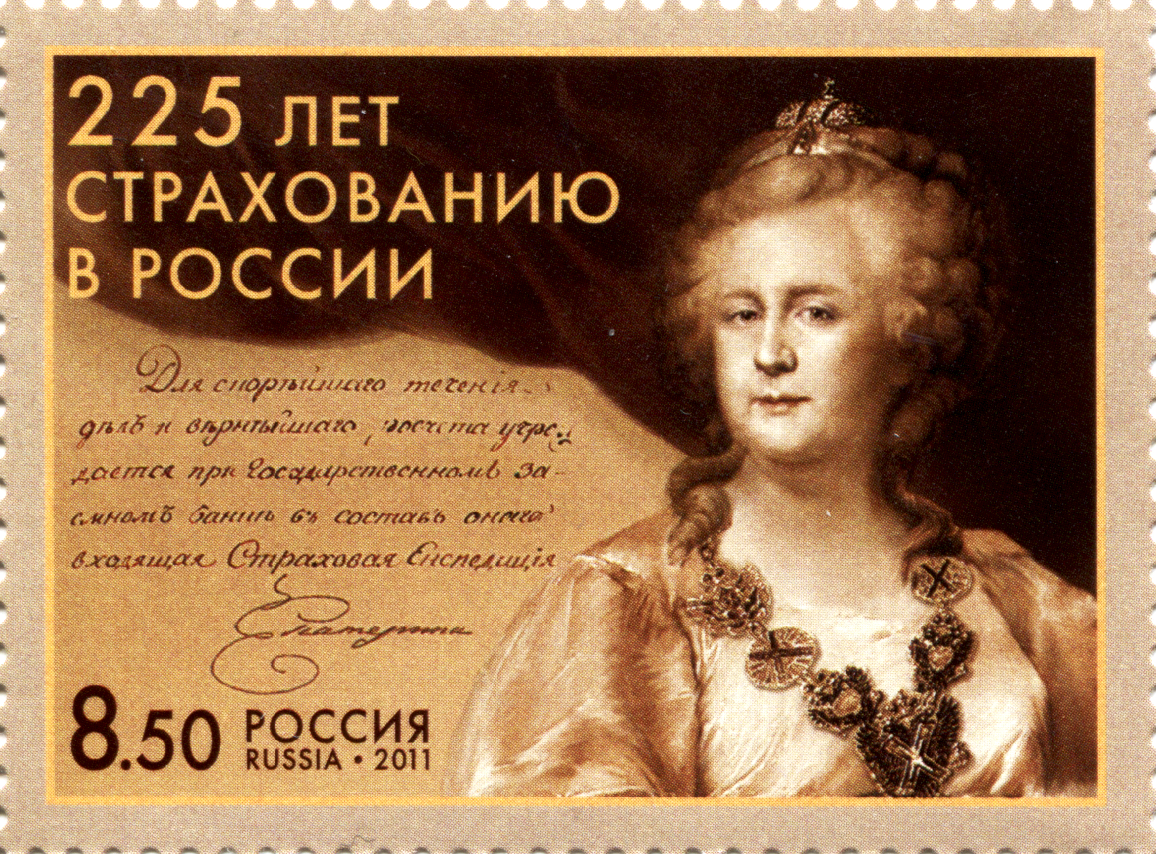 225 years of Insurance in Russia. 2011.The stamp of Russia, 8.50 Rubles, 2011, PTC Marka Catalogue No 1546